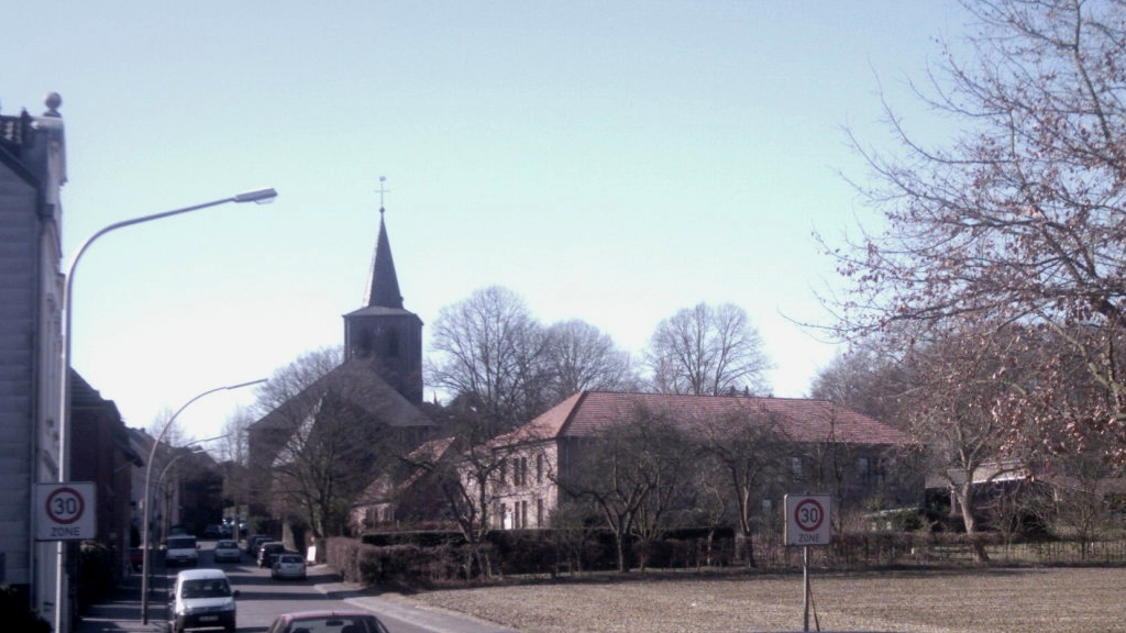 Skyline of Helenabrunn, Viersen, Germany